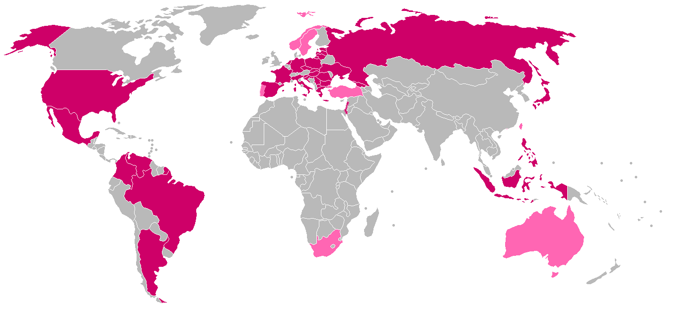 This map shows the countries where Playboy magazine is published as of 2009. The dark pink indicates the countries where the magazine are distributed today, the lighter pink indicates the countries where regional editions Playboy were published, but were ceased.